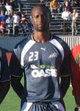 Elkana Mayard in 2007 with Trois-Rivieres Attak.